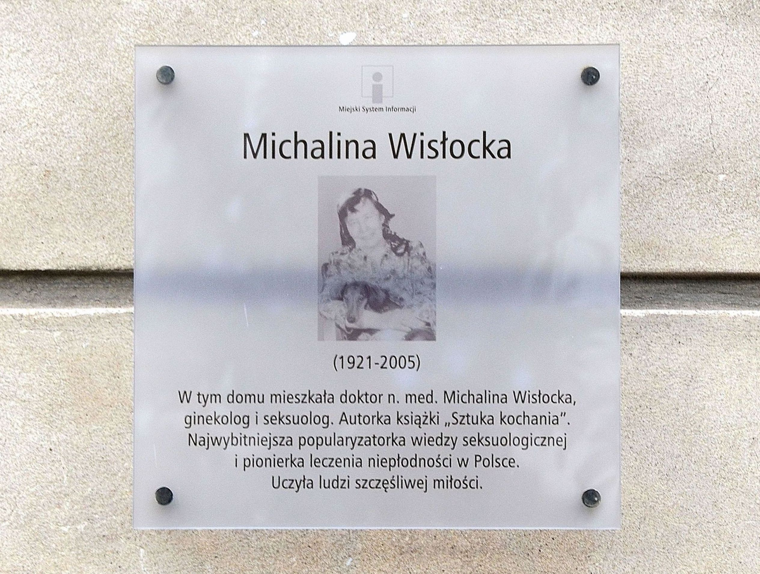 MSI plaque commemorating Michalina Wisłocka at 5 Piekarska Street (on Rycerska Street side of the building) in Warsaw